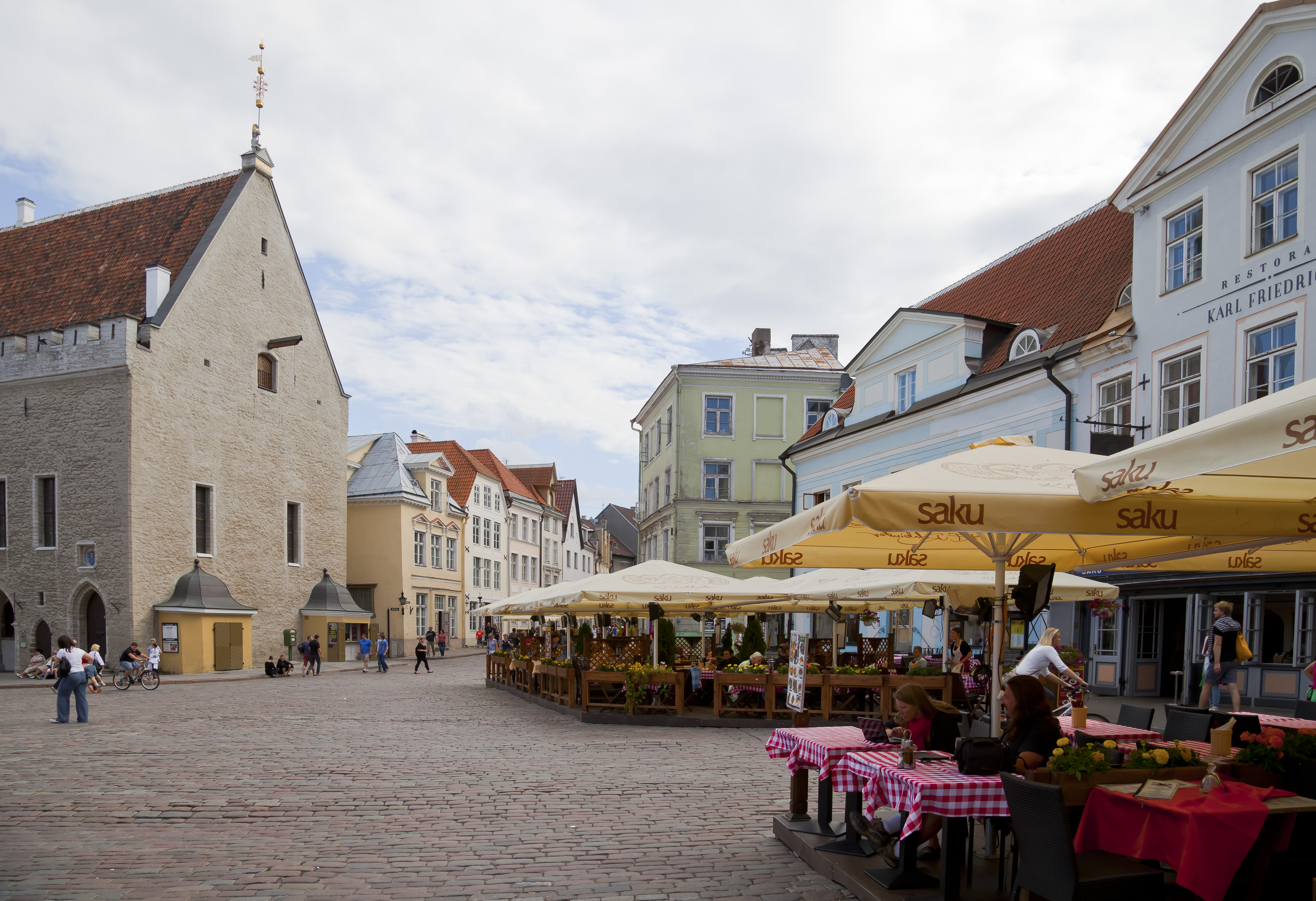 Town Hall Square, Tallinn, Estonia